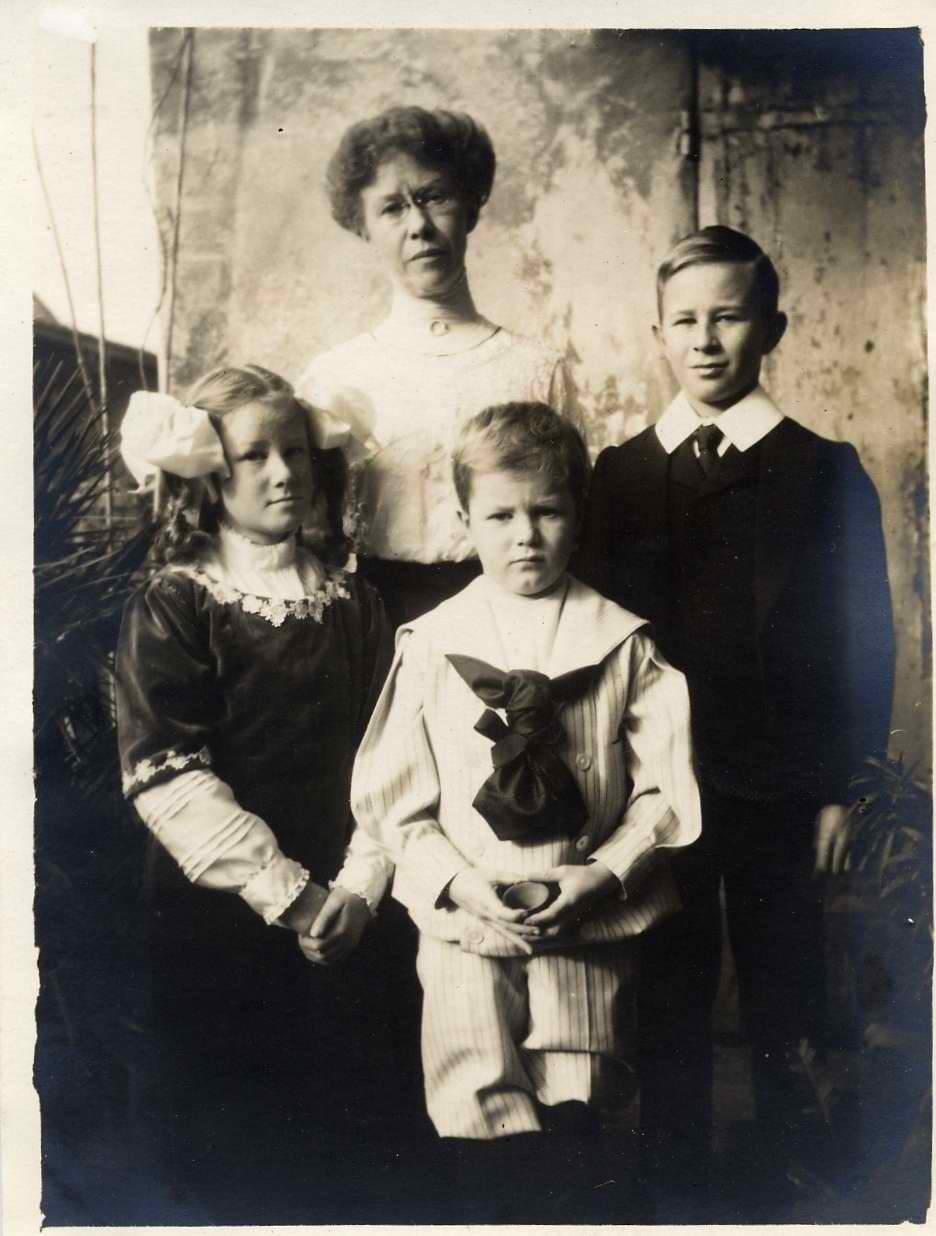 Humphrey Cobb, right, is seen with his family December 24, 1908 at the Casa Guidi in Florence, Italy. With his younger sister Virginia and brother Arthur they pose with their mother Alice Littell Cobb, M.D., recently widowed.